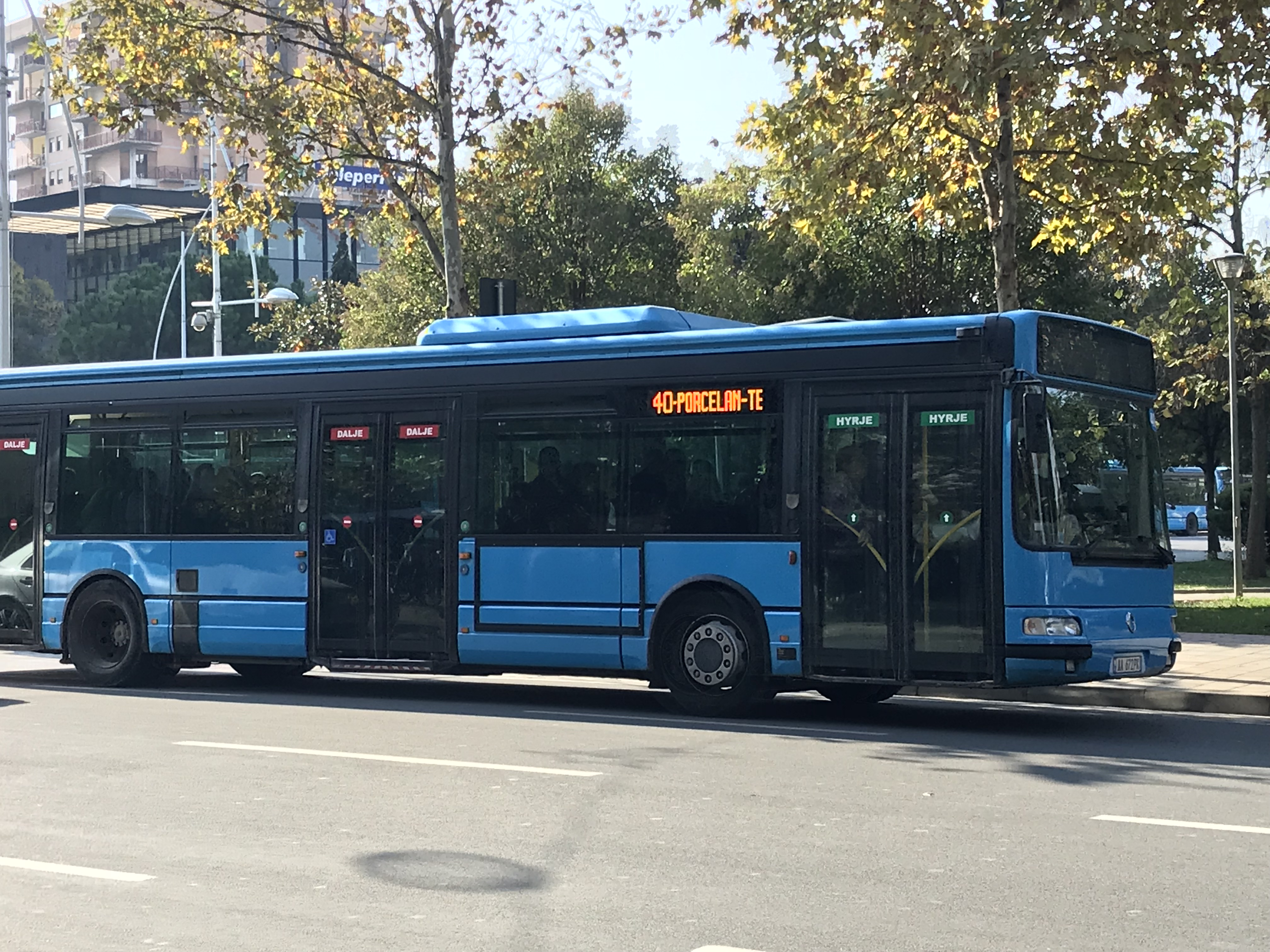 Porcelani bus line in Tirana